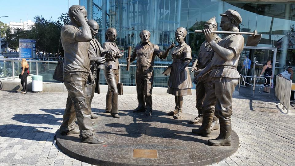 Bronze Sculptures in front of Azrieli Towers